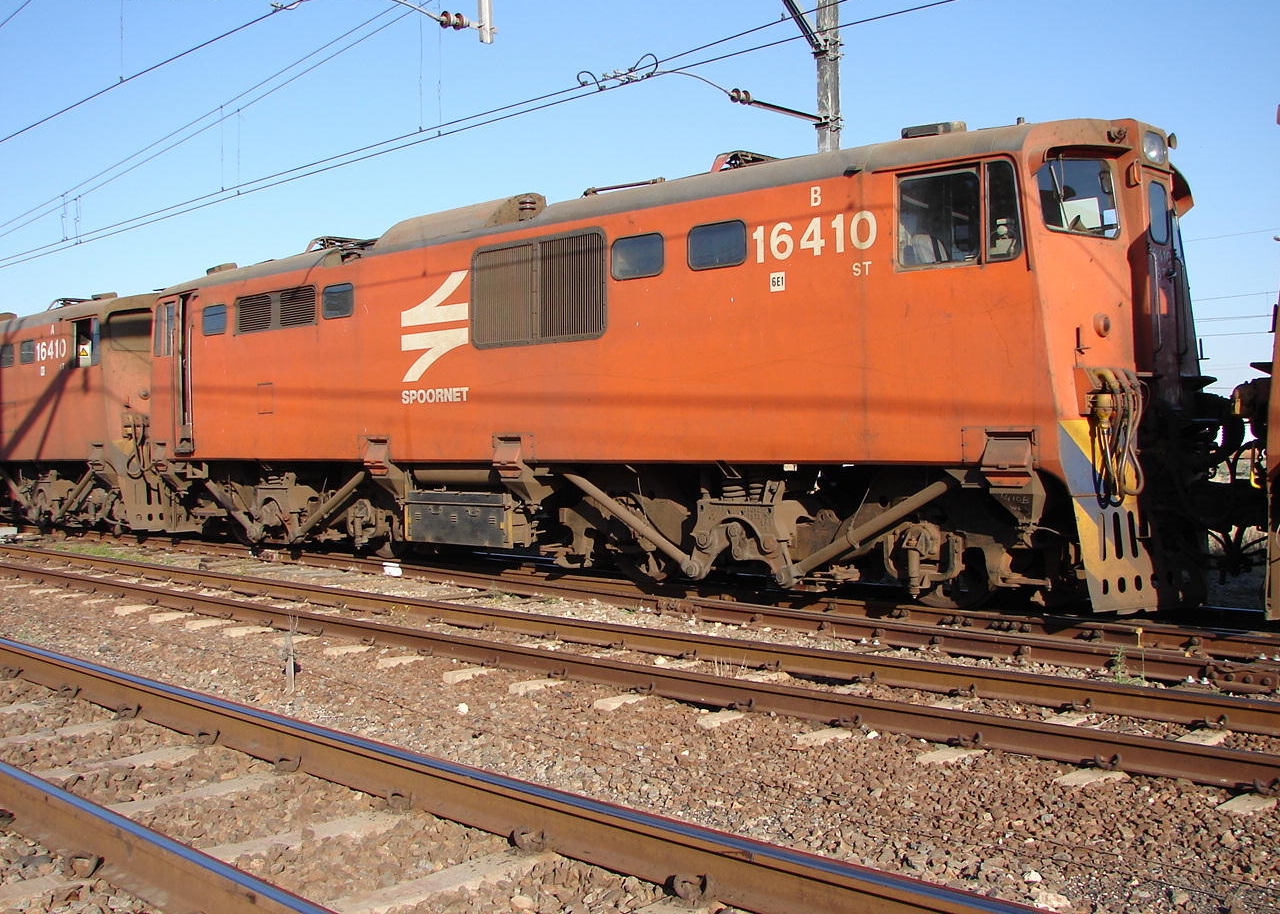 Spoornet Class 16E 16-410B Location: Christiana, North West Province Reclassification: In the early 1990s Class 6E1 Series 7 E1851 was reclassified to Class 16E and renumbered 16-410B Rebuilding: 16-410B re-entered service in 2008 after being rebuilt to Class 18E 18-393